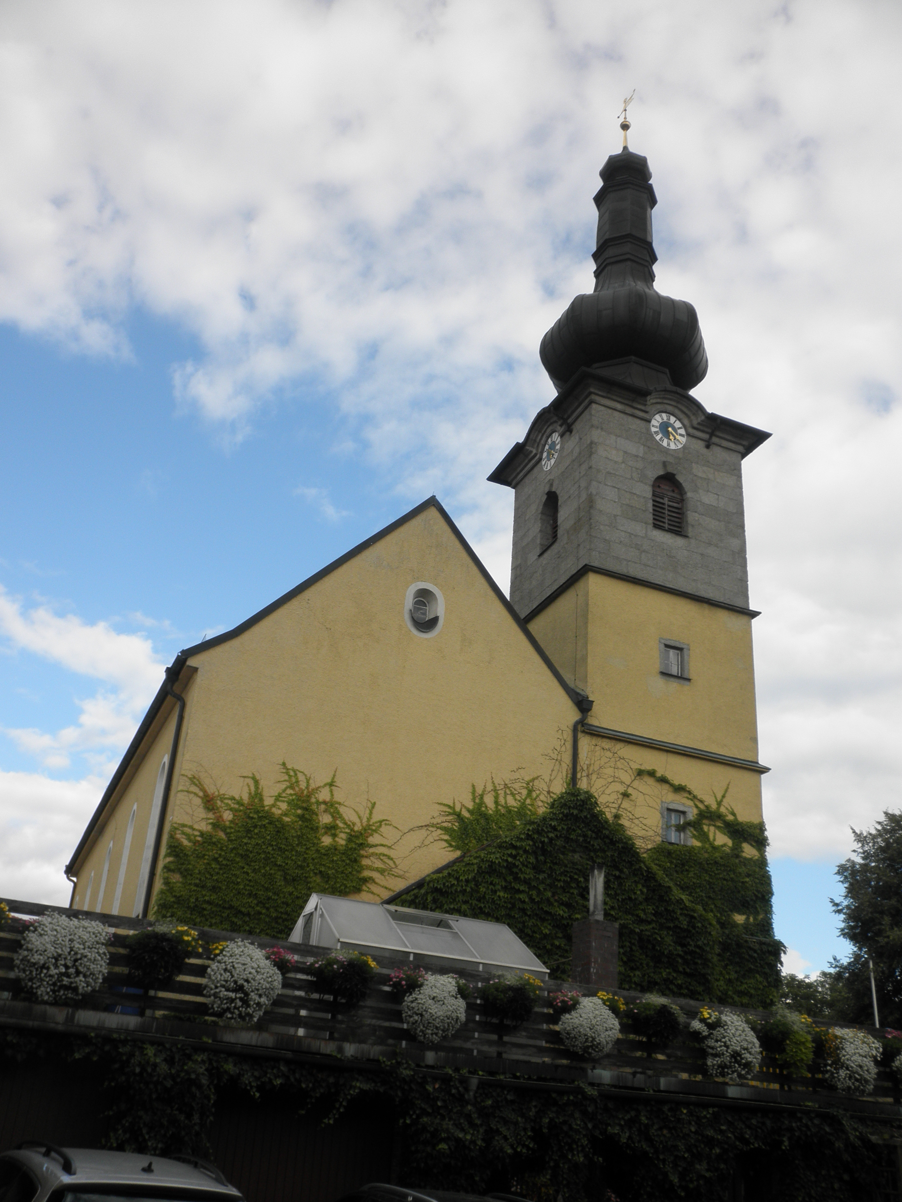 Church in Wurz (Püchersreuth) in Bavaria